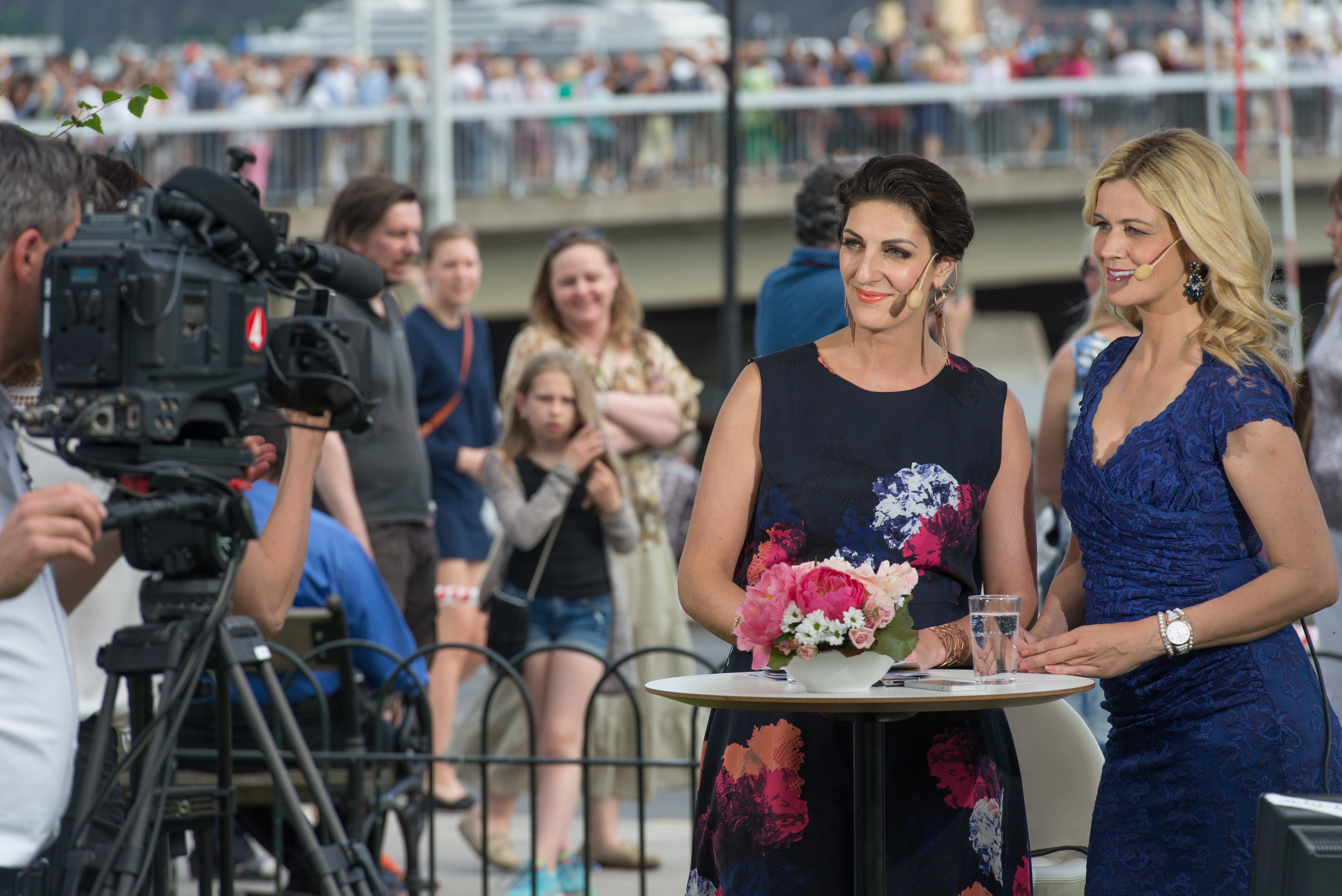 Soraya Lavasani and Catarina Hurtig broadcasting from downtown Stockholm for TV4 News on the day of the wedding of Prince Carl Philip, Duke of Värmland, and Sofia Hellqvist in 2015.